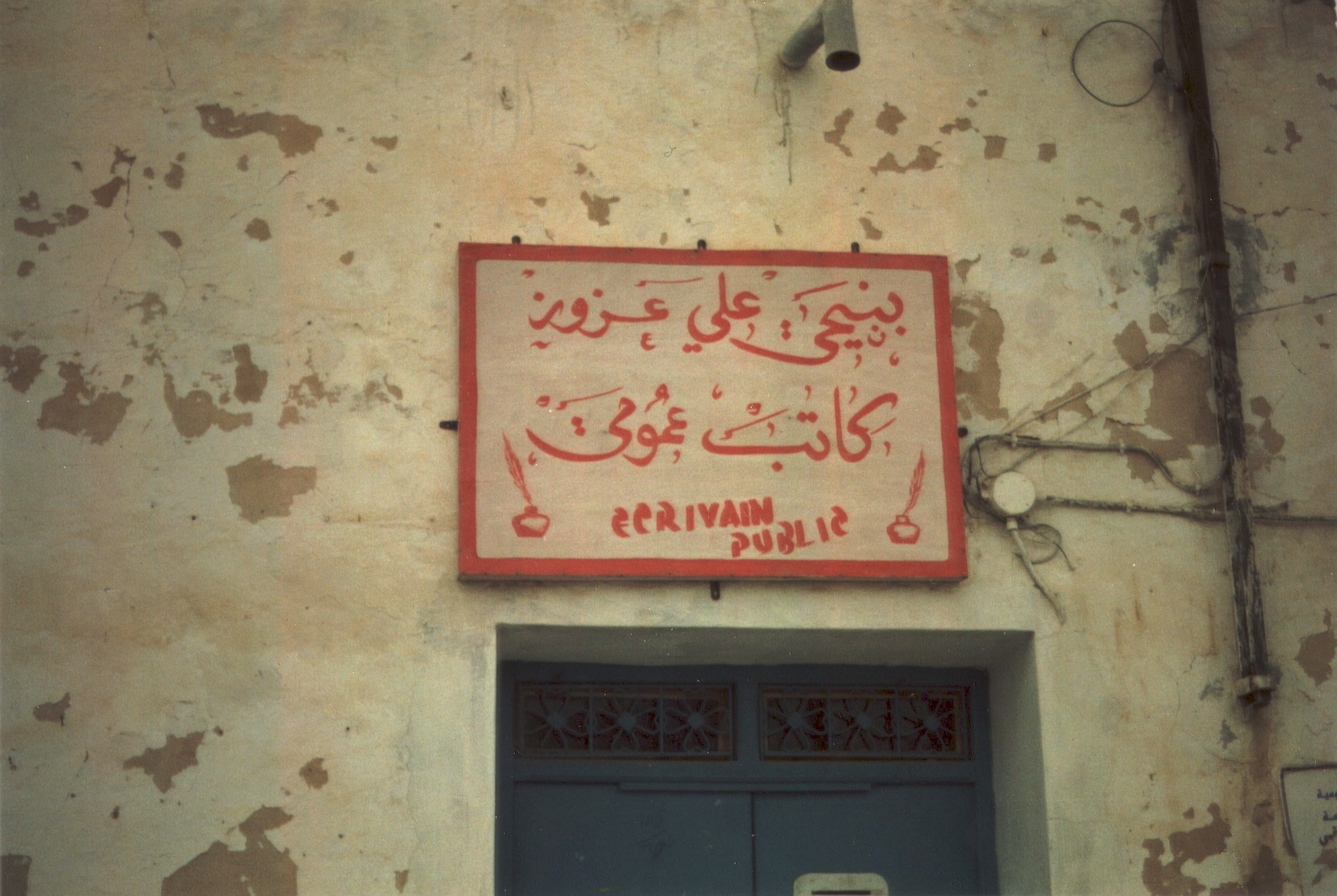 Handwritten sign over a "Public writer" shop in Douz, Tunisia, 2002. Scan of a color print photography.